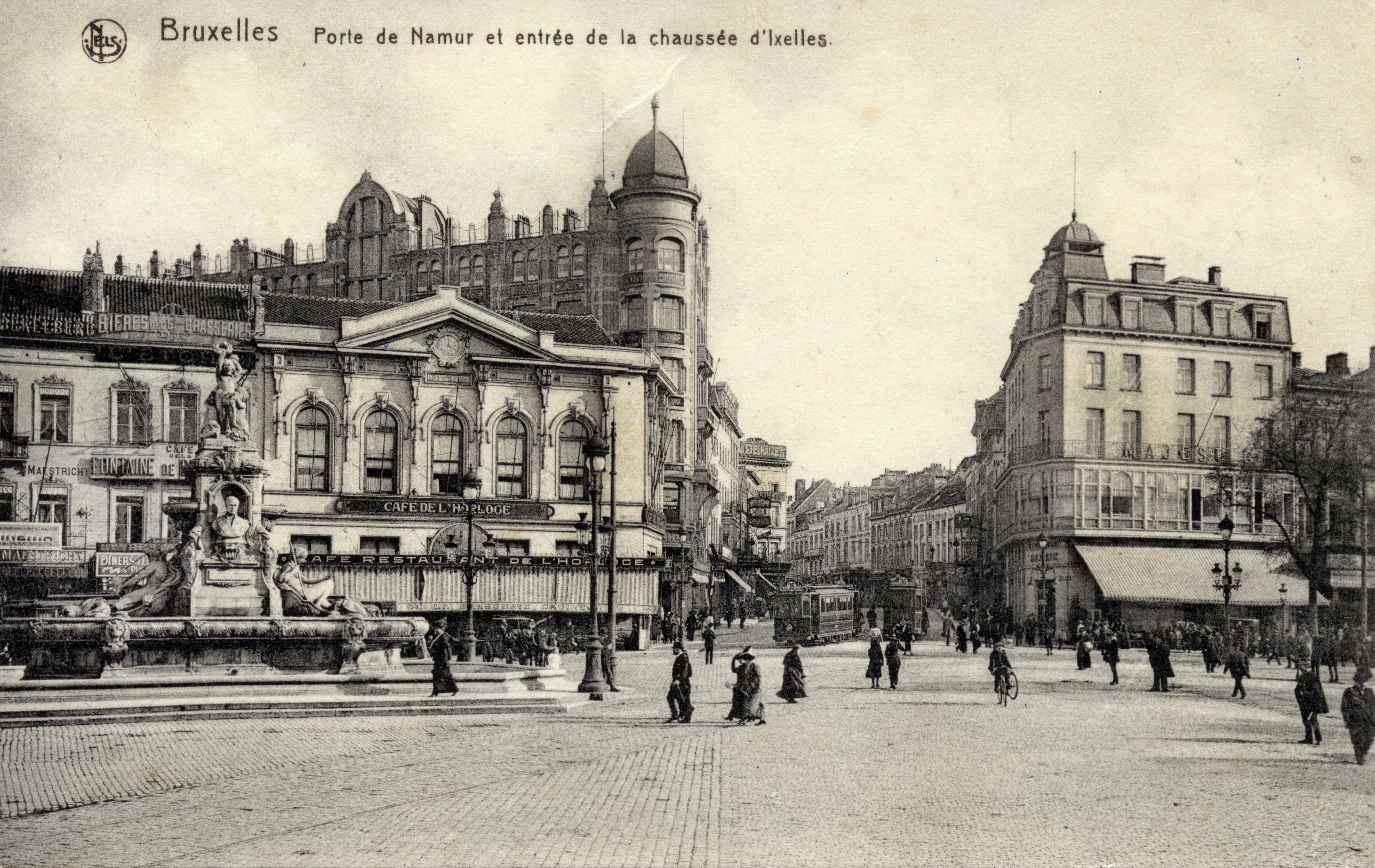 Porte de Namur,chaussée d'Ixelles